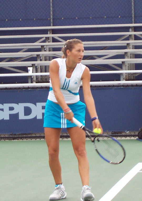 Shahar Peer playing at the 2004 U.S. Open qualification tournament